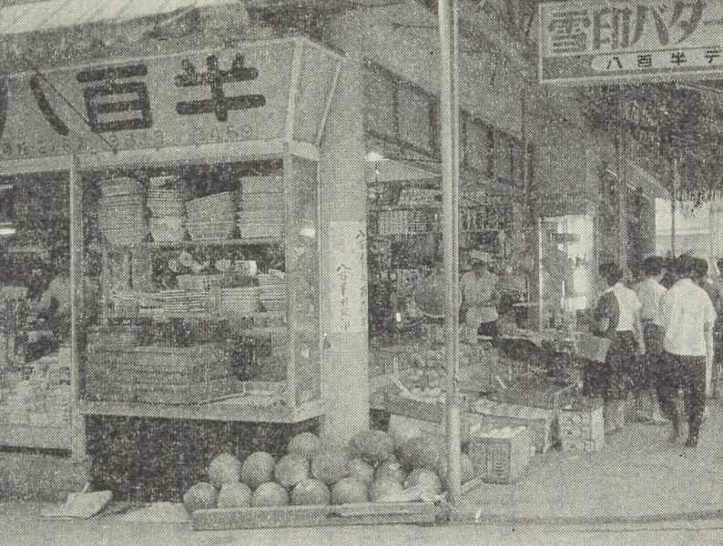 Yaohan (Greengrocers in Japan)